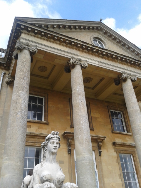 The Neo-Palladian south portico of Croome Court, Worcestershire, designed by Lancelot 'Capability' Brown in the mid 18th Century, showing one of a pair of sphinxes which flank the steps.